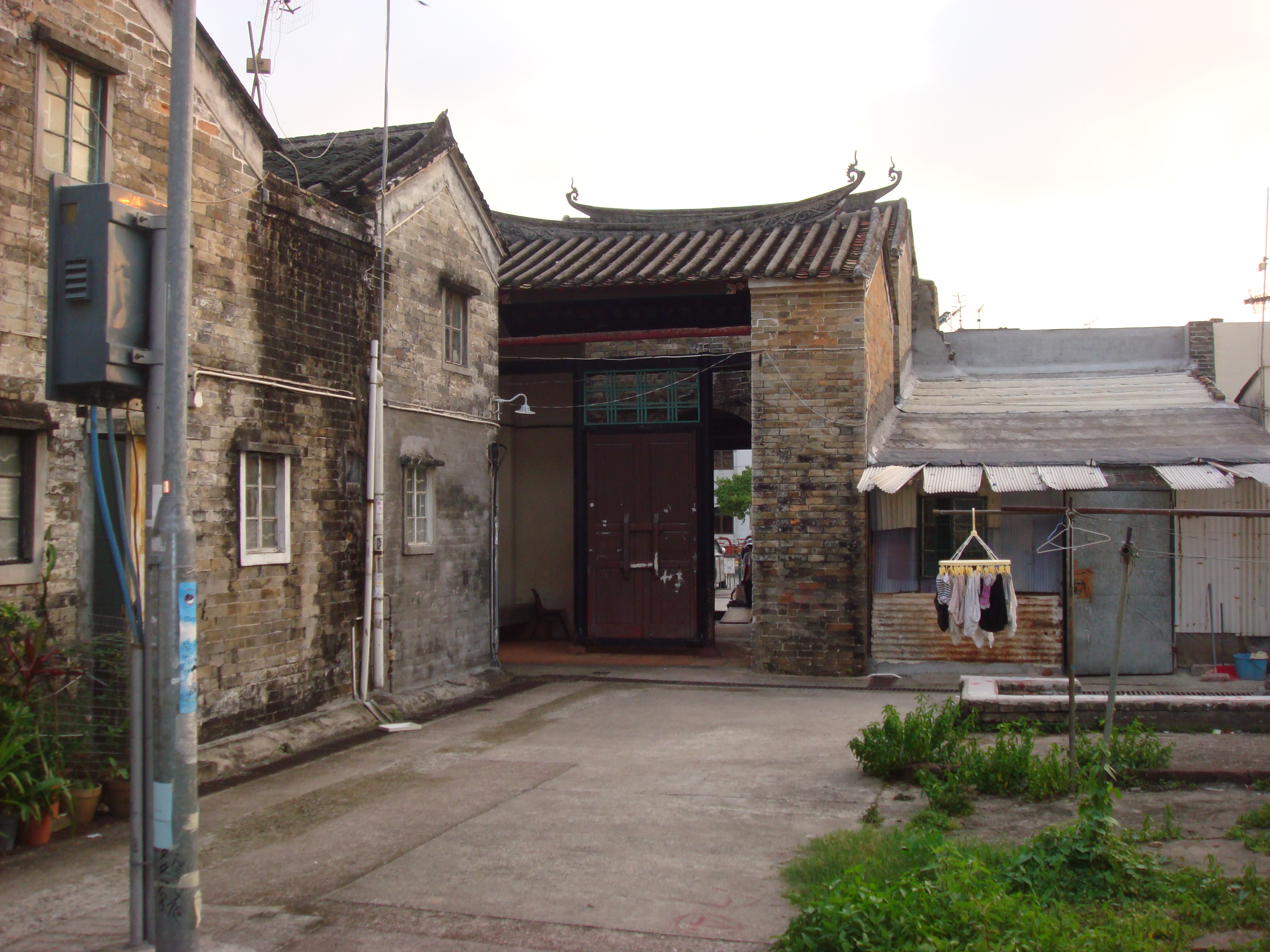 Inside view of the Gate Tower of Kun Lung Wai aka. San Wai, a walled village of Hong Kong. The Gate Tower, enclosing walls and and the Corner Watch Towers are declared monuments.